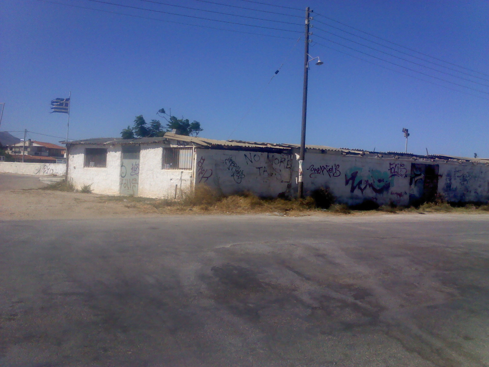 Municipal court Artemida